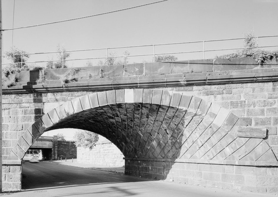 Skew Bridge in Reading, Pennsylvania on the NRHP. Same photo as our File:ELEVATION VIEW, TAKEN PERPENDICULAR TO SOUTH FACE, LOOKING NE. - Philadelphia and Reading Railroad, Skew Arch Bridge, North Sixth Street at Woodward Street, Reading, Berks County, HAER PA,6-READ,13-8.tif, but black edges trimmed, slightly added contrast, pdf format, smaller file size